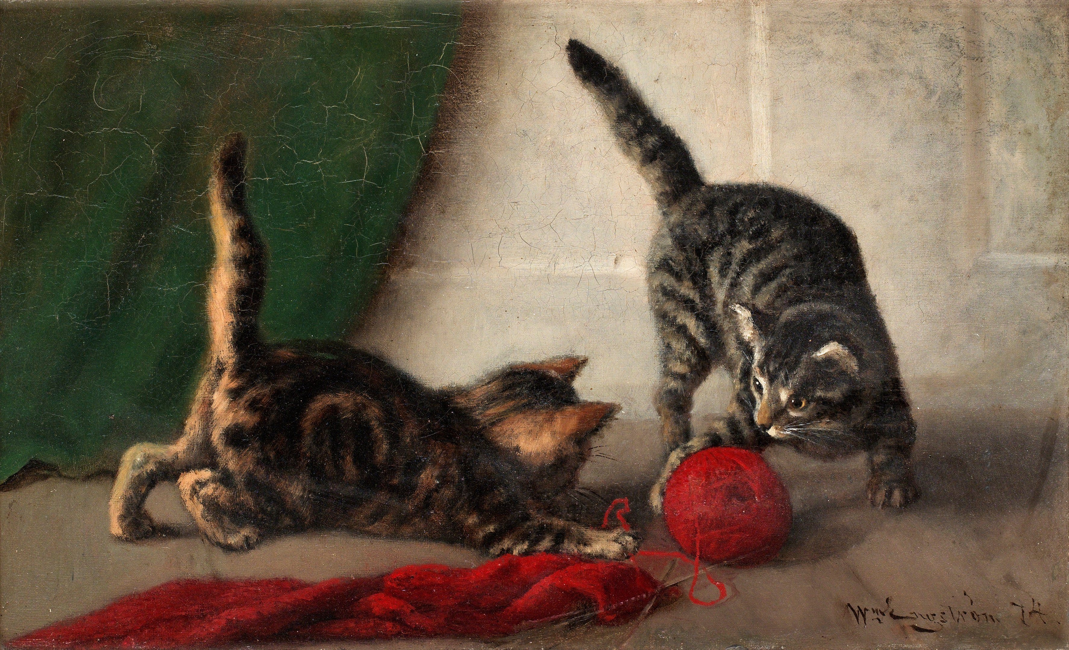 Cats playing